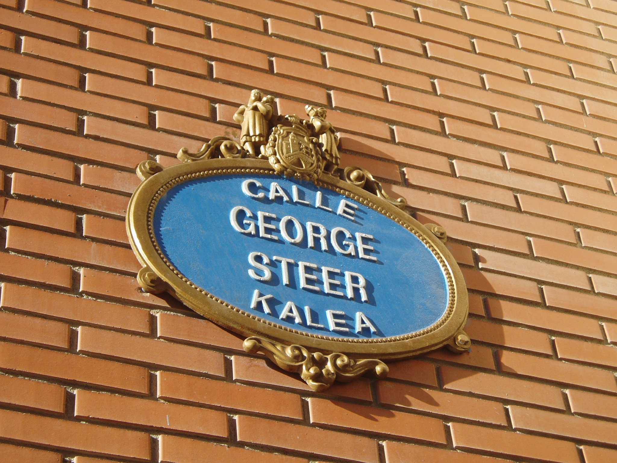 Street signal of George Steer street in Bilbao (Spain).